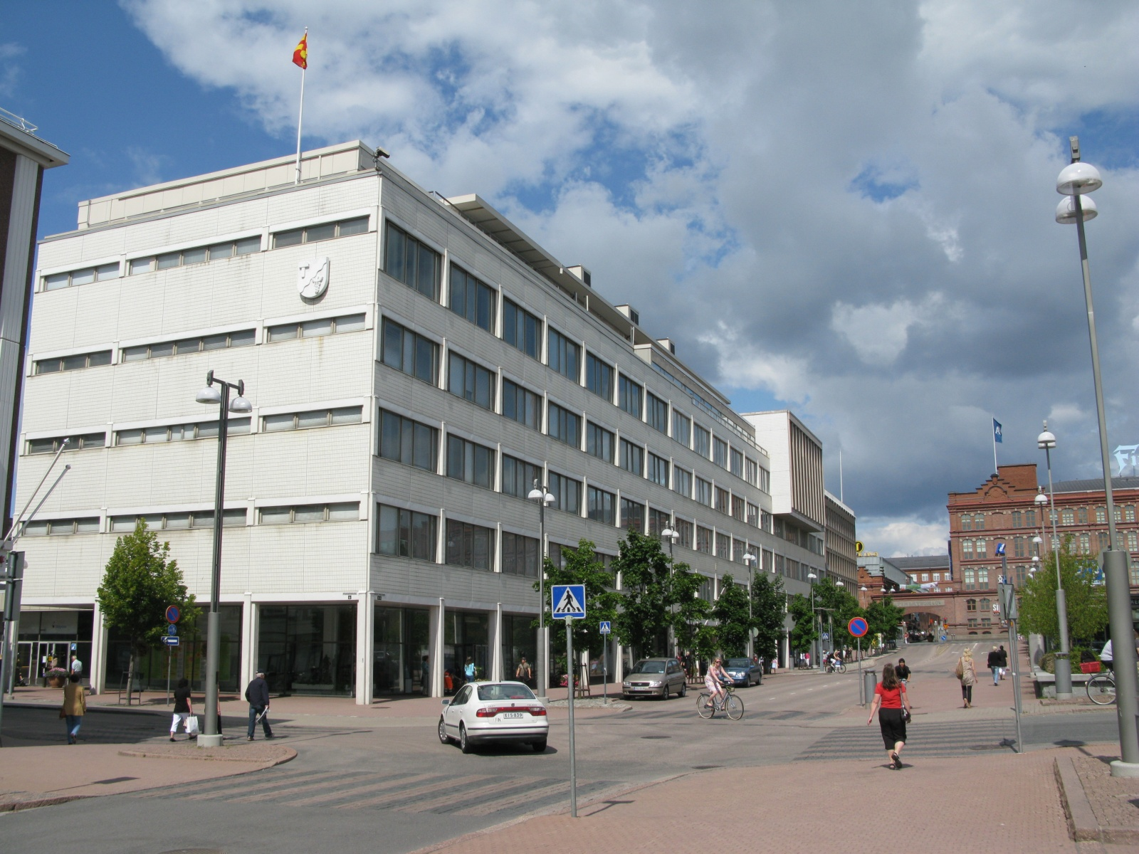 City central government office building in Tampere, Finland